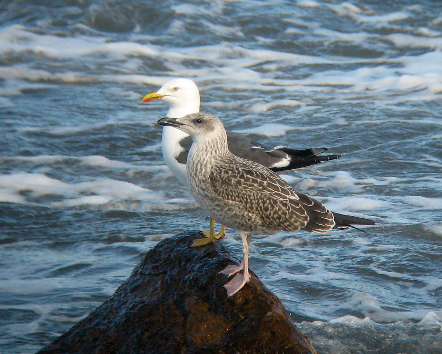 Lesser Black-backed Gull Larus fuscus graellsii adult behind, juvenile in front; St Mary's Island, Whitley Bay, Northumberland, UK